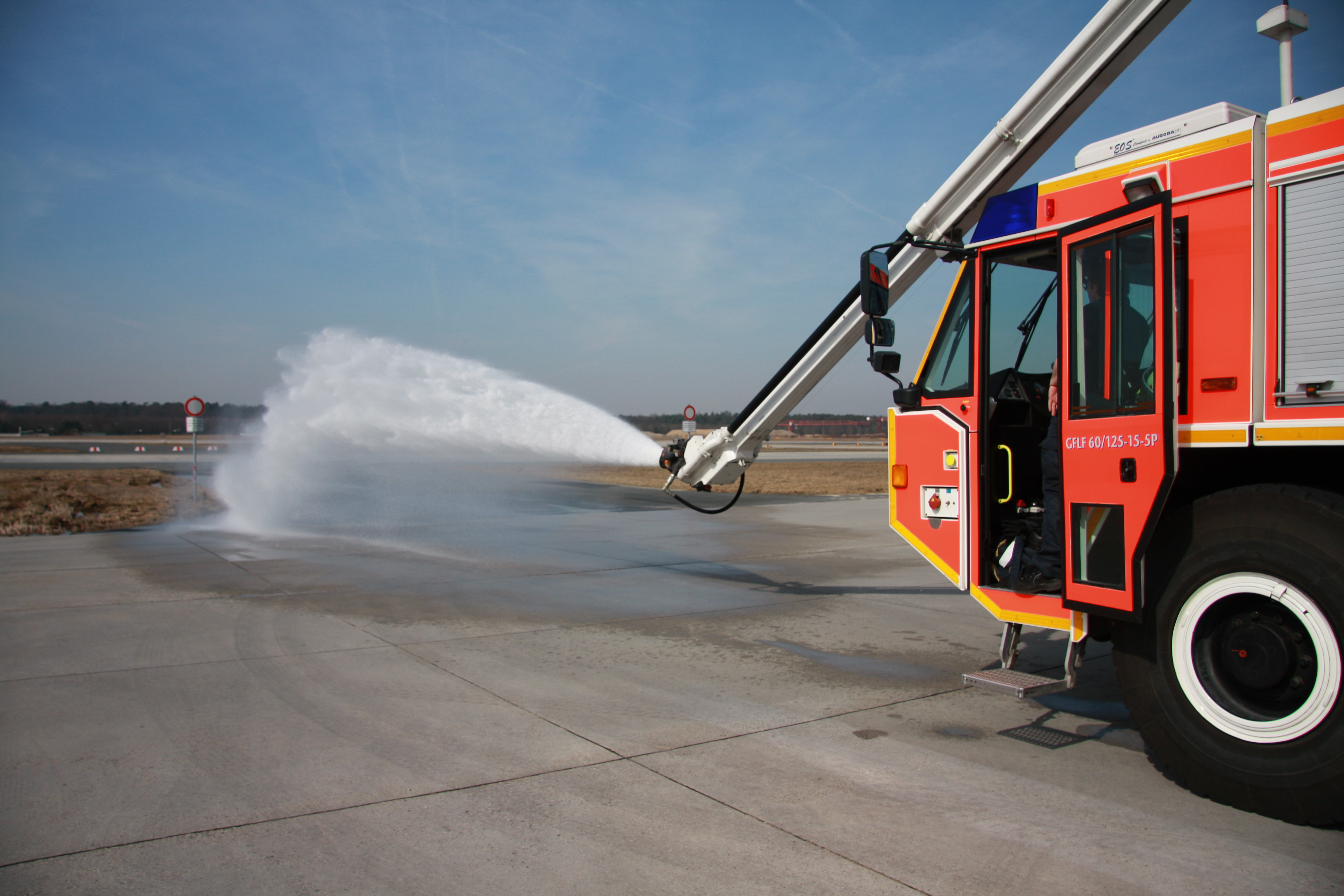 Airport crash tender type Rosenbauer Simba 8x8 belonging to the Aircraft Rescue and Firefighting at Frankfurt Airport in action